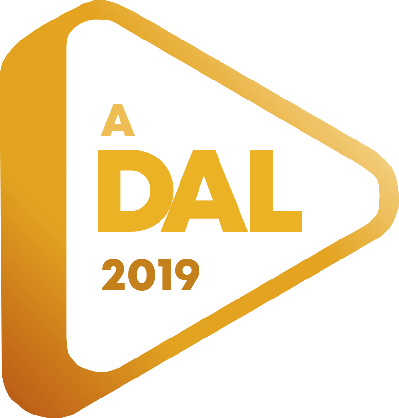 The logotype of A Dal 2019 (own work, based on the official graphics)